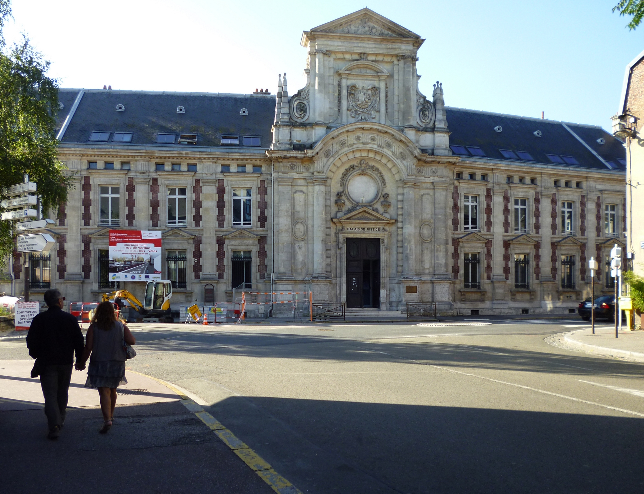 Old court of Évreux, built between 1682 and 1714. Restored in 1882. Damaged by lightning in 1911.